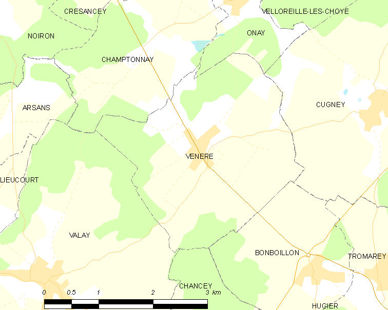 Map of French municipality